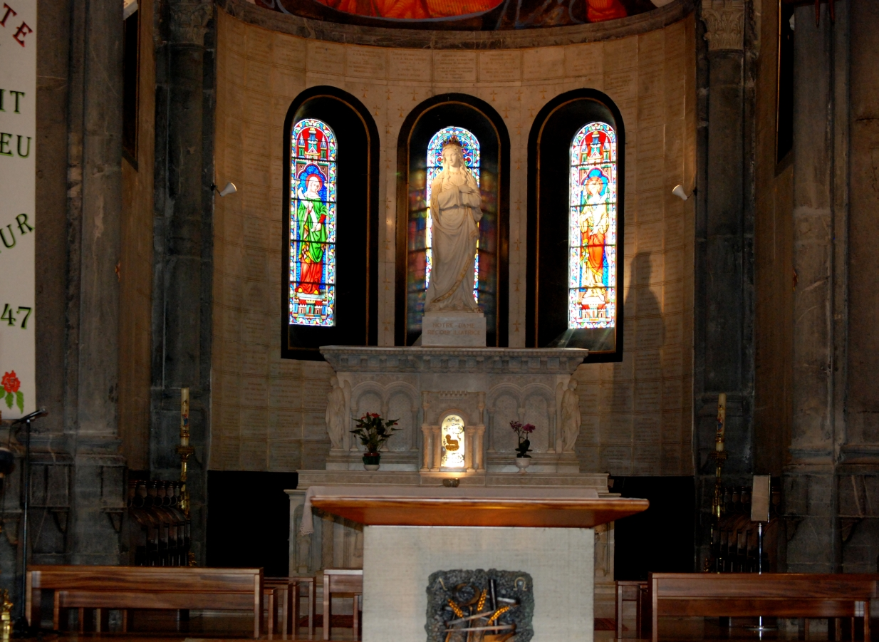 Inside sanctuary in La Salette